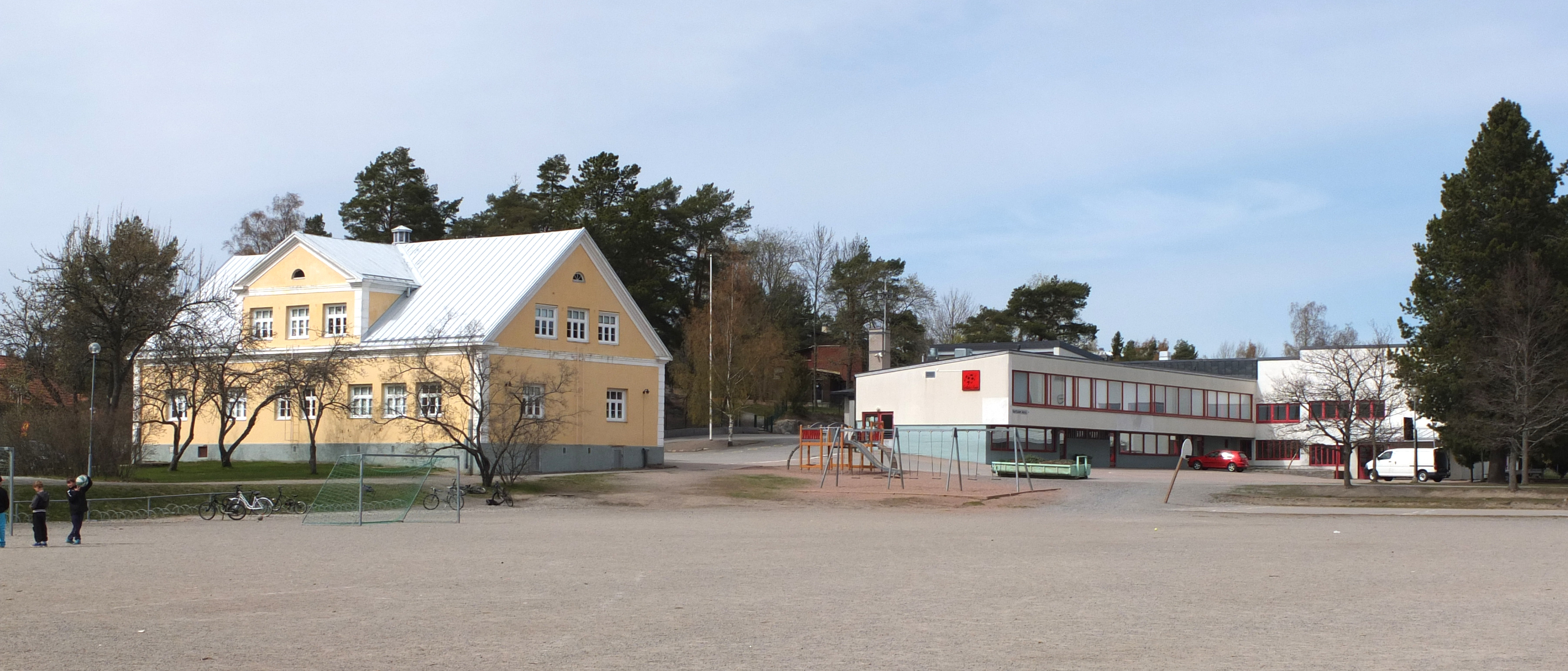 Old and new building of elementary school in Kerttula, Raisio, Finland. May 2014.